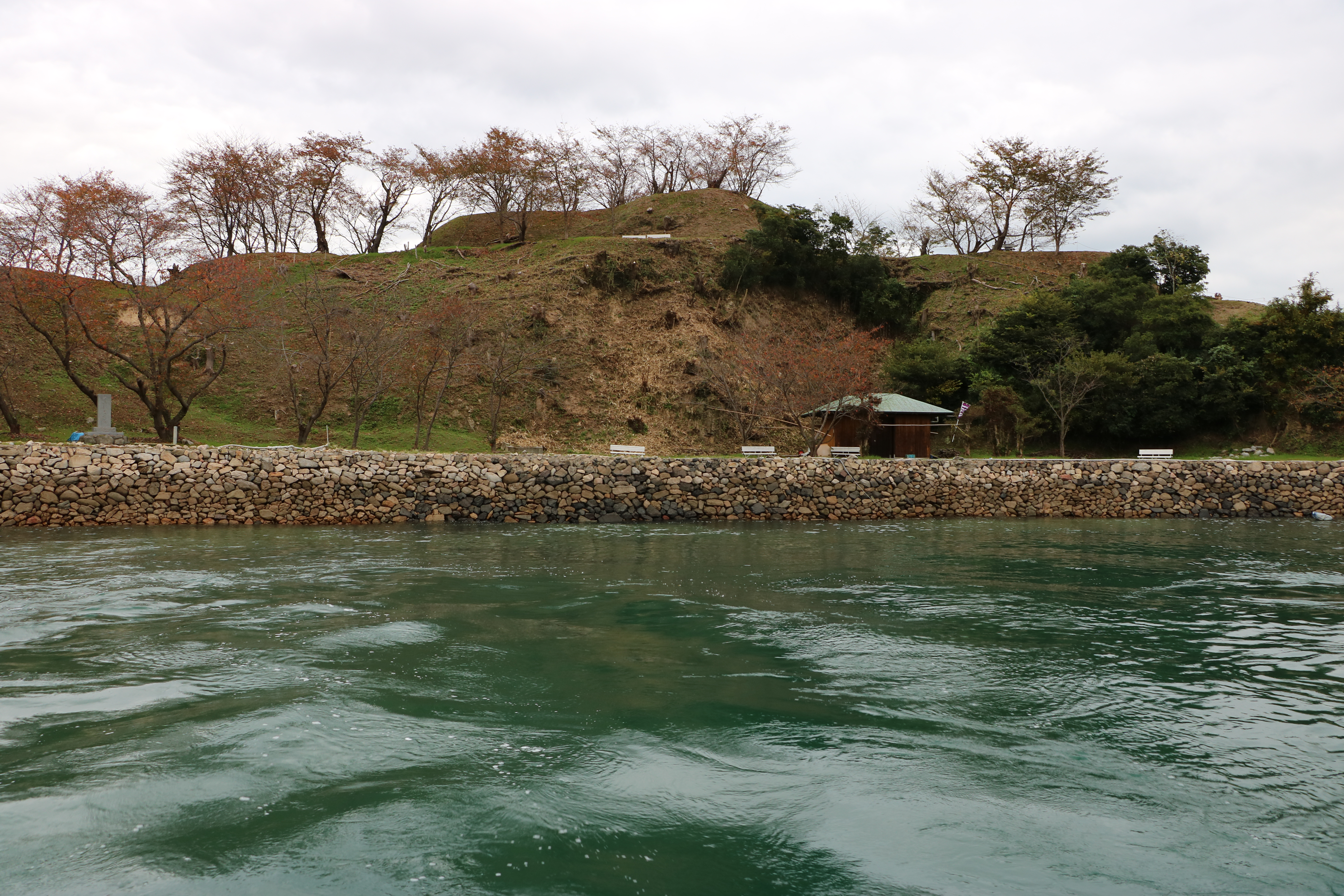 Noshima Castle Ruins.Shooting from the sea on the west side.